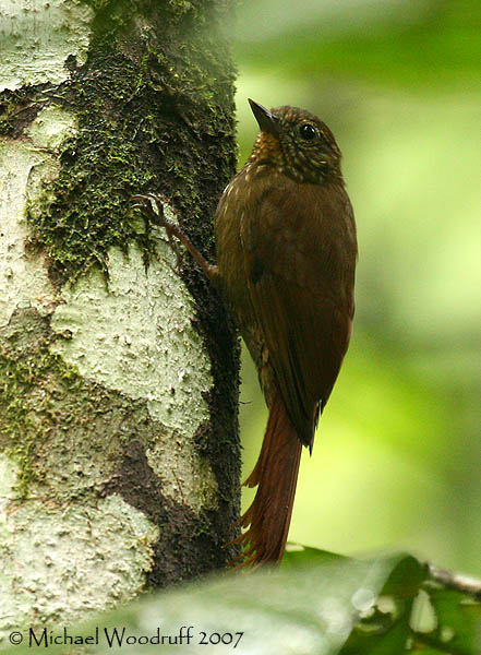 Wedge-billed Woodcreeper, Rio Silanche (PVM), NW Ecuador 3/9/2007